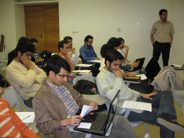 Linux Shell work shop - Isfahanlug session